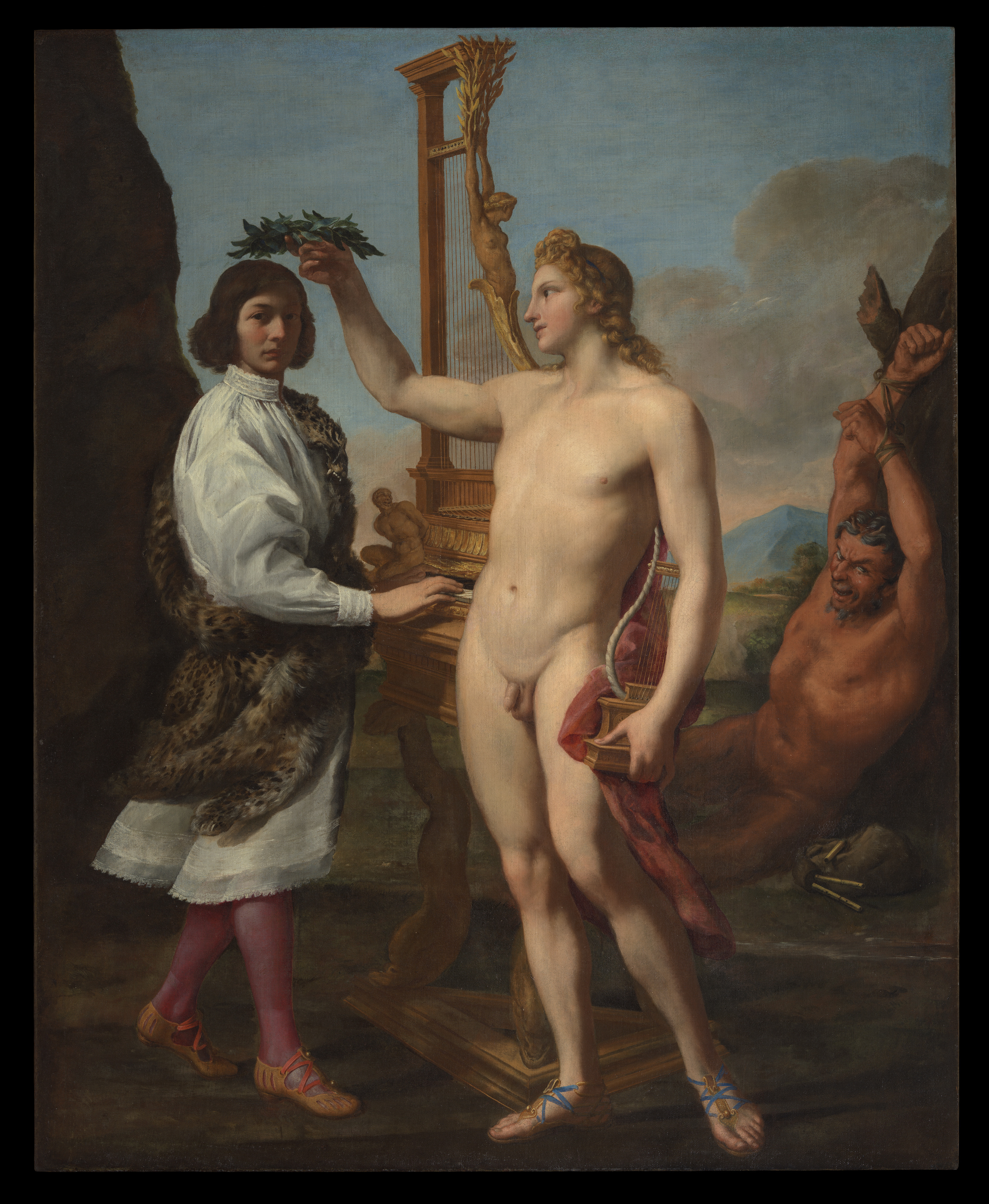 Purchase, Enid A. Haupt Gift and Gwynne Andrews Fund, 1981 (1981.317)